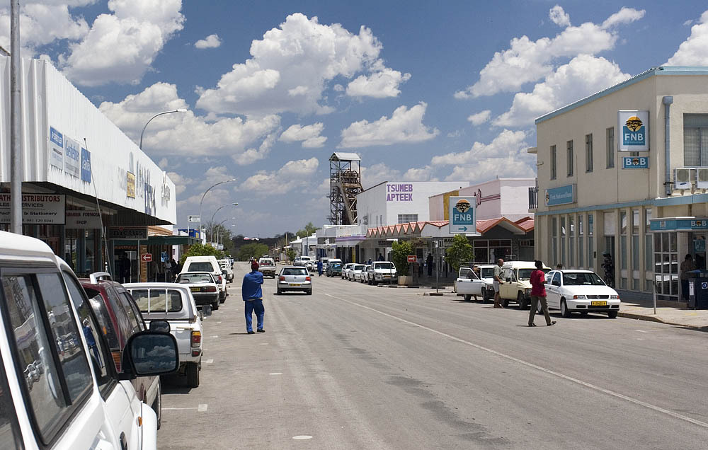 Main Street in Tsumeb, Namibia